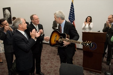 An Impromptu Performance Senator Lamar Alexander (R-TN), along with Senator Bob Corker (R-TN), thank singer/songwriter Rivers Rutherford after his performance at a recent "Tennessee Tuesday" event--the weekly breakfast held for Tennesseans visiting Washington.